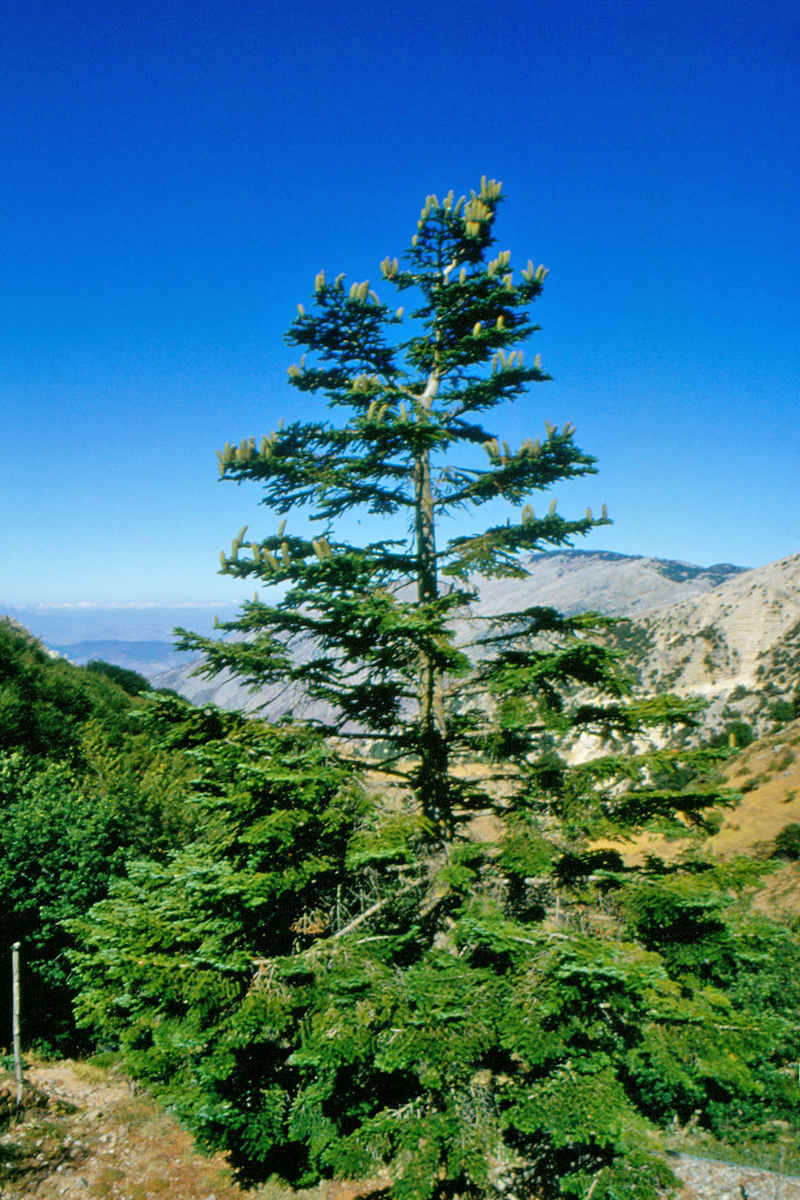 Abies nebrodensis, Castellana Sicula, Madonie, Sicily, 1600 m altitude.